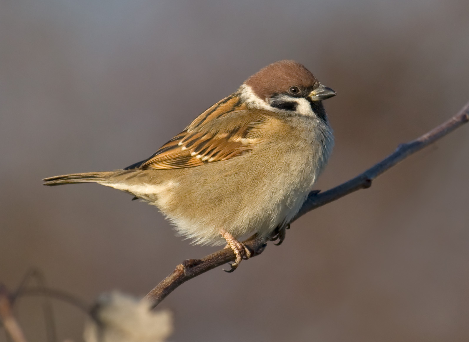 Tree Sparrow